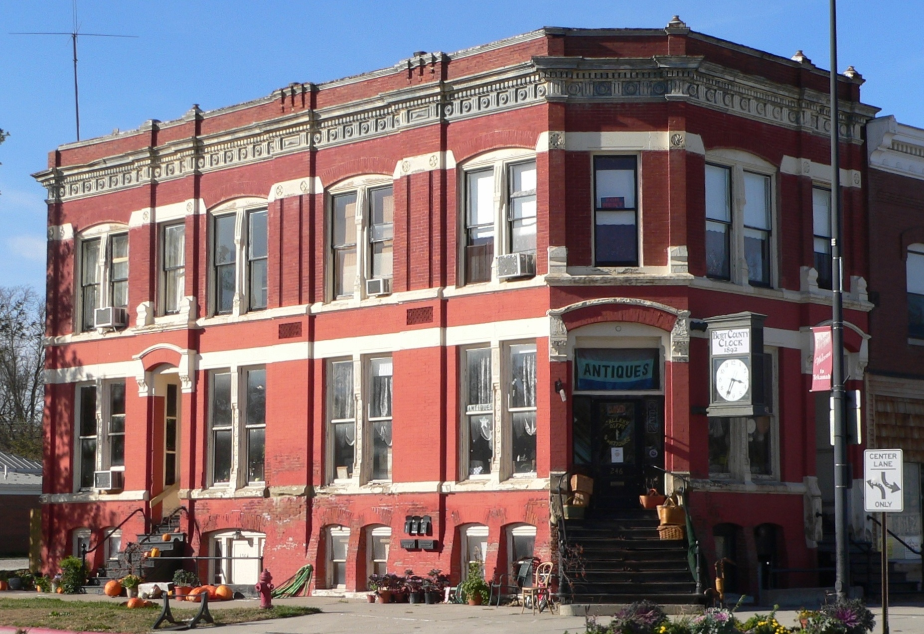 Burt County State Bank in Tekaham, Nebraska; seen from the southeast. The building was constructed in 1883; it is listed in the National Register of Historic Places.